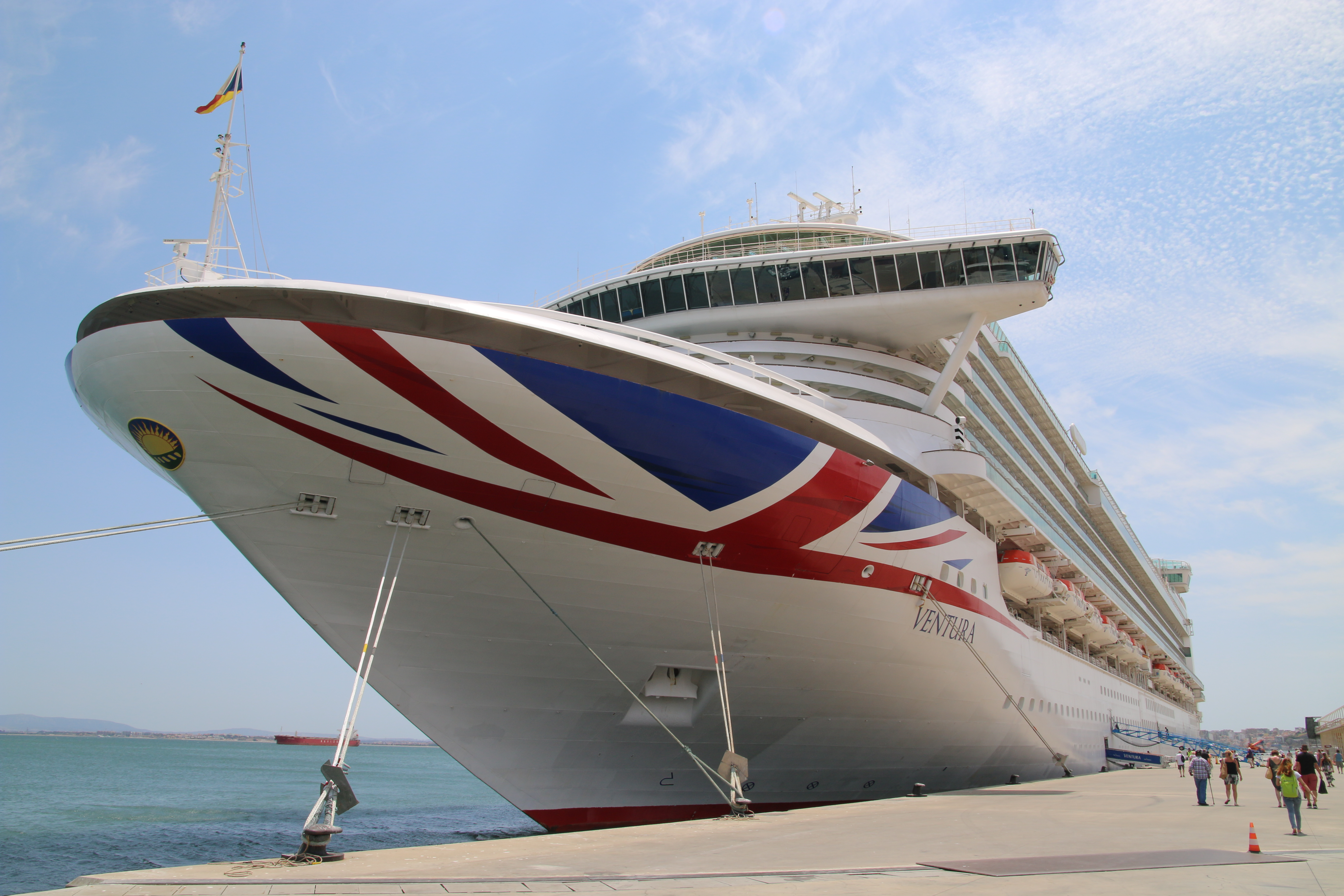 Berthed in the Port of Lisbon, Portugal